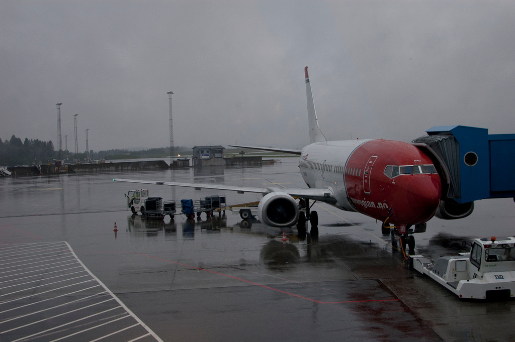 Leaving a rainy Bergen